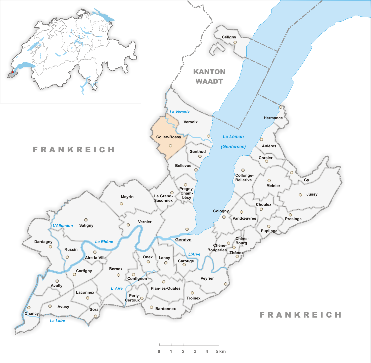 Municipality Collex-Bossy